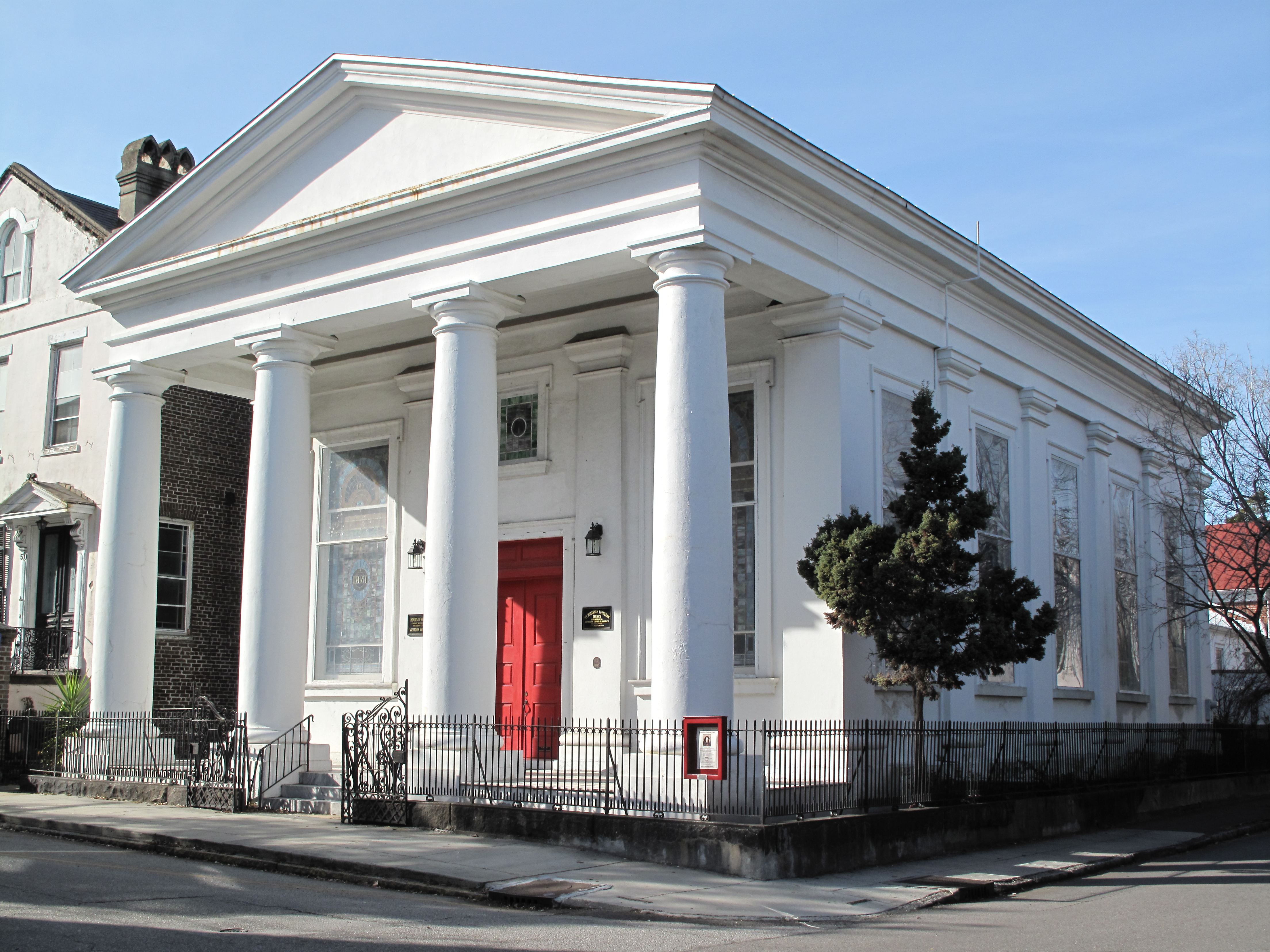 The original St. Matthew's sanctuary was built in 1842 on the corner of Anson and Hasell Streets in Charleston, SC. It was sold to the congregation of St. Johannes Lutheran Church in 1878 who continue to worship in this location.